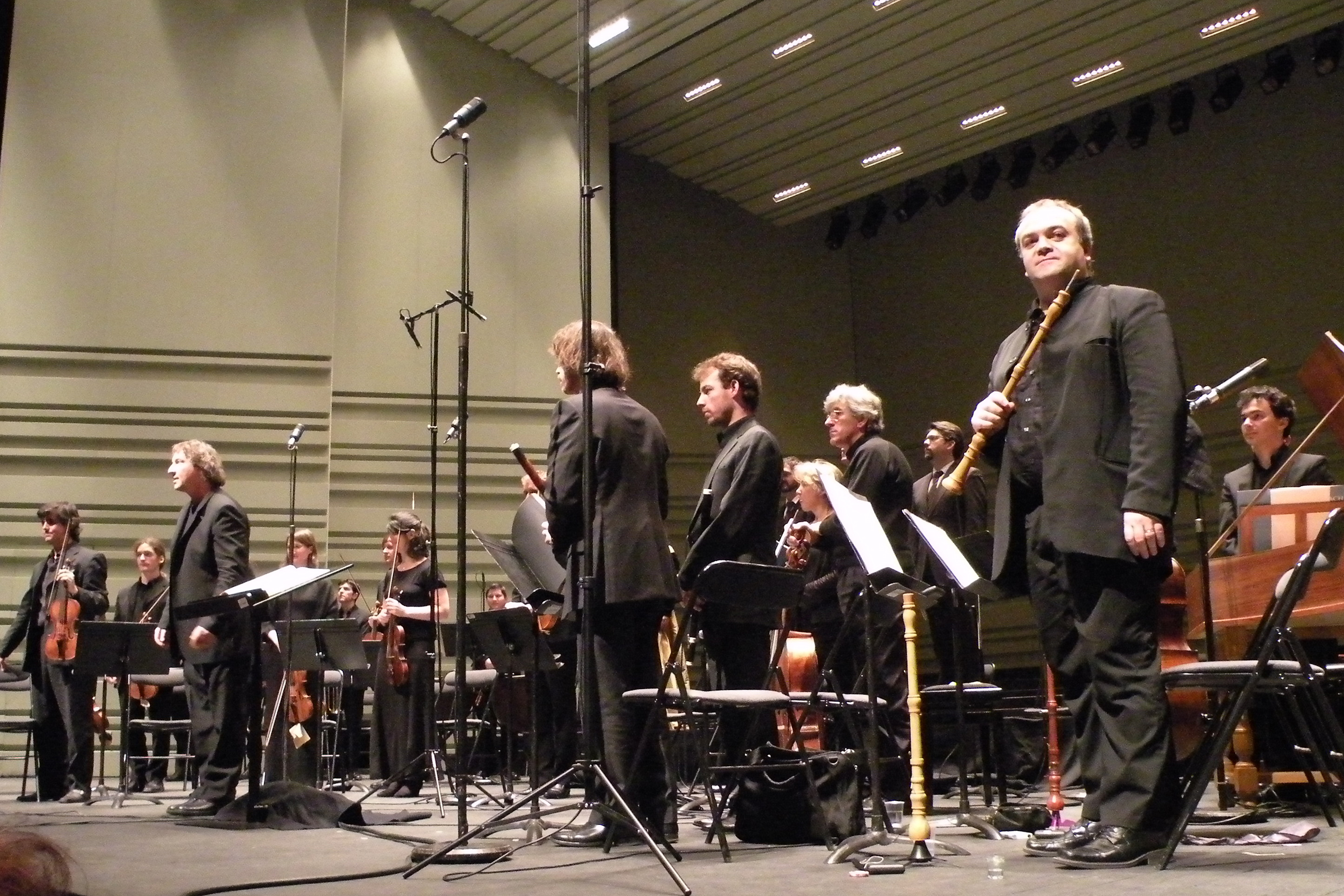 Ricercar Consort orchestra, on 29 january 2009, during La Folle Journée in Nantes.